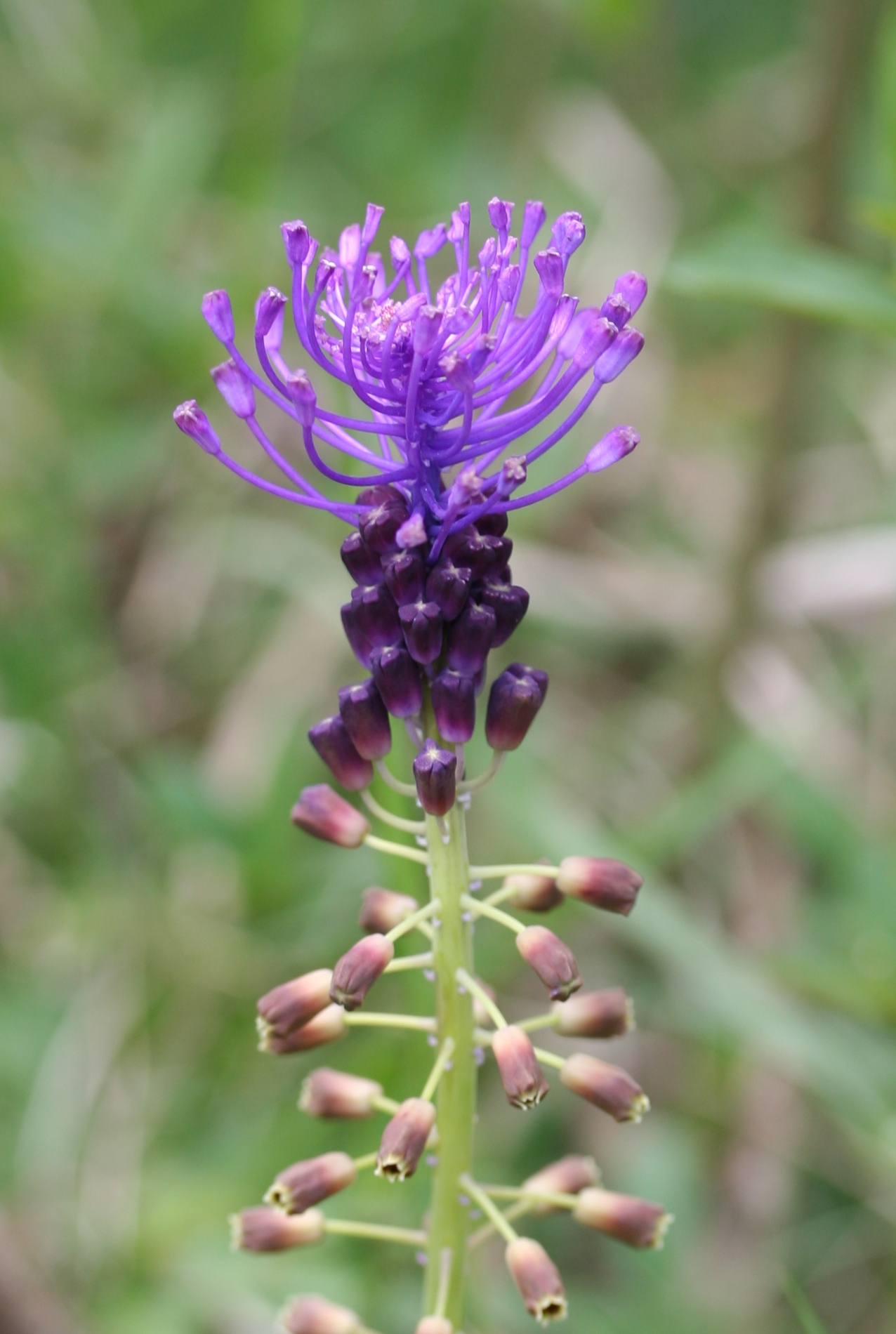 Muscari_comosum 21 May 2006 IJmuiden, the Netherlands